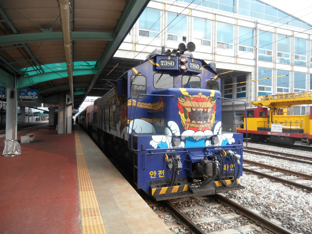 S-Train